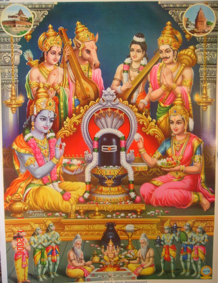 Rama and Sita, worshiping a lingam